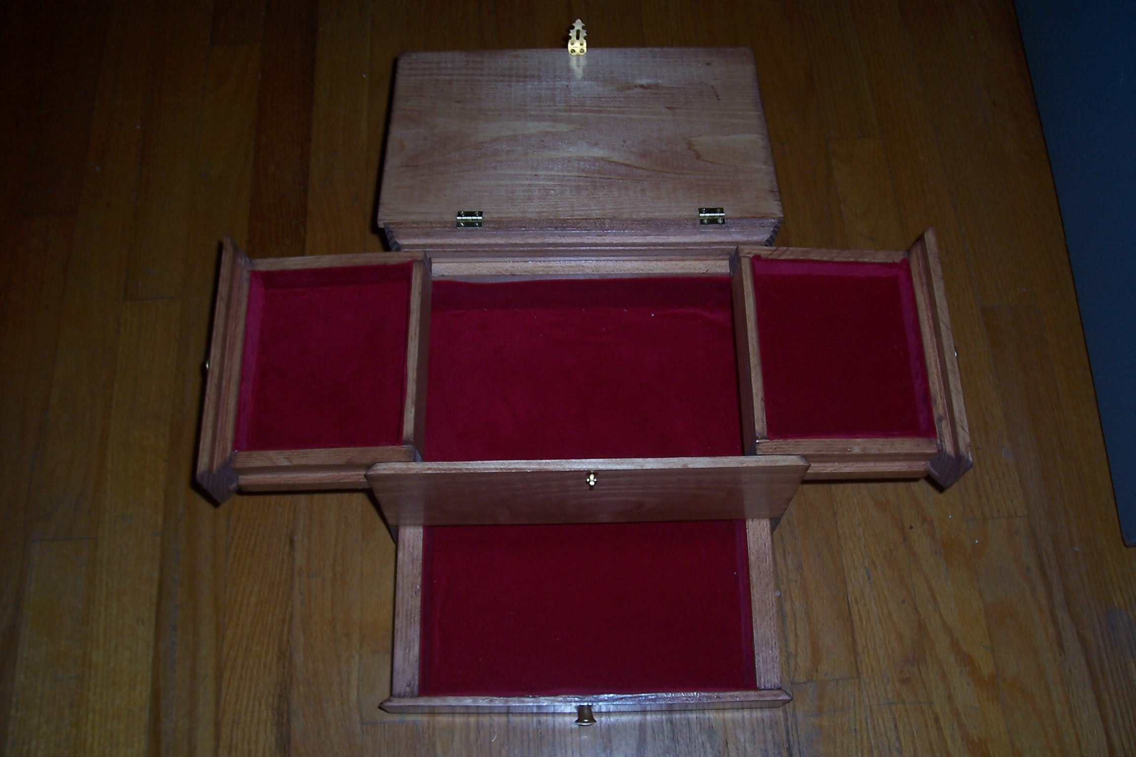 A jewellery box lined with red velvet